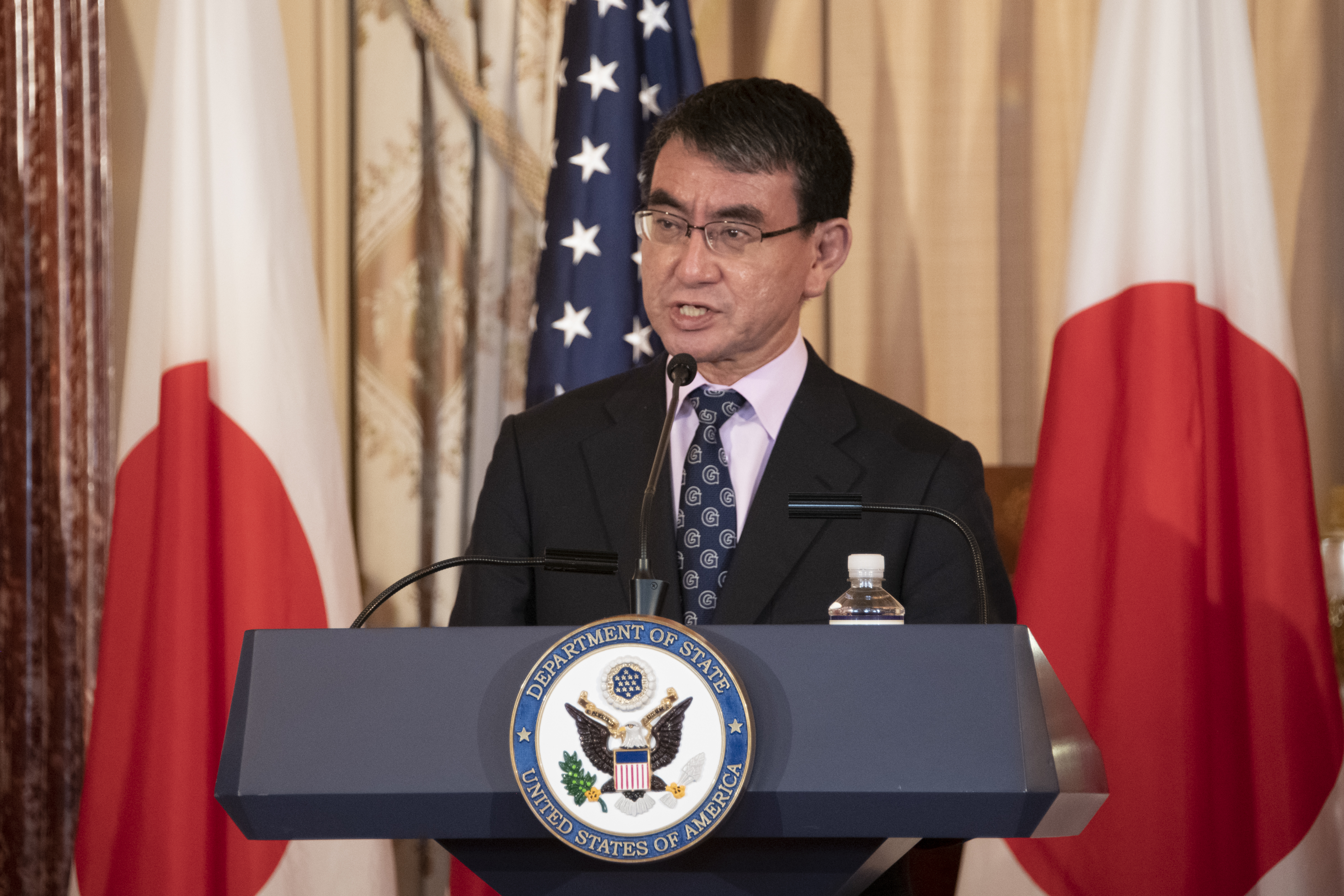 U.S. Secretary of State Michael R. Pompeo, Acting Secretary of Defense Patrick Shanahan, Japanese Foreign Minister Taro Kono and Defense Minister Takeshi Iwaya participate in a joint press availability following the Security Consultative Committee (“2+2”) meeting at the U.S. Department of State in Washington, D.C., on April 19, 2019. [State Department photo by Ron Przysucha/ Public Domain]